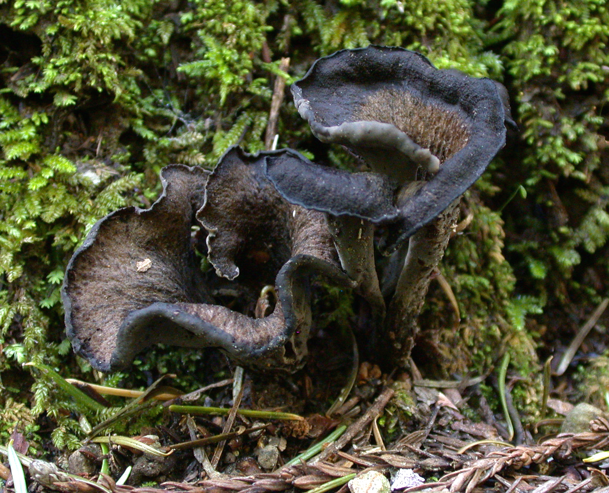 The fungus Craterellus cornucopioides (L.) Pers. Specimen photographed in Big Basin State Park, Santa Cruz Co., California, USA.